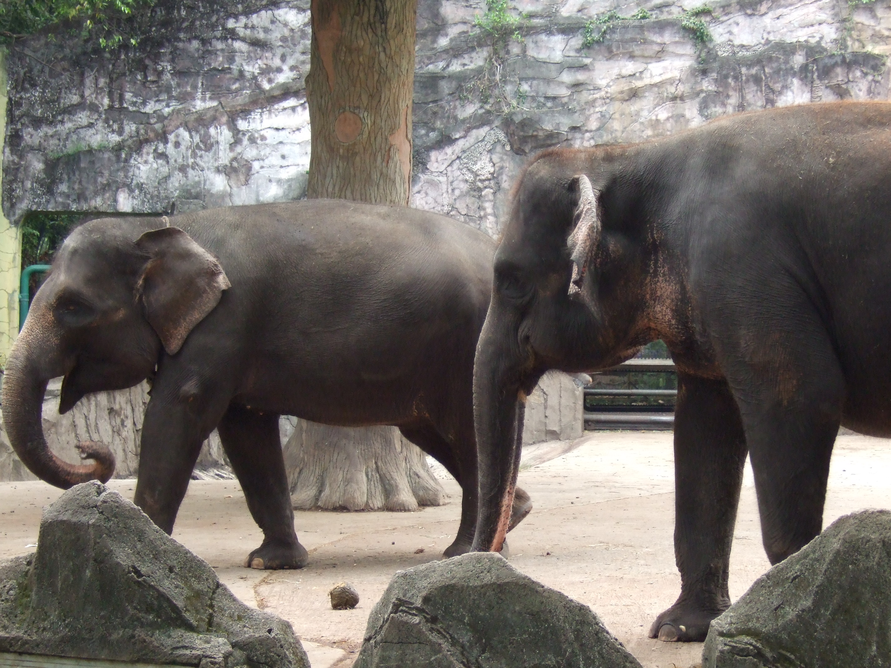 Sumatran Elephant, Elephas maximus sumatranus, Ragunan Zoo, Jakarta, Indonesia